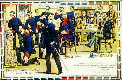 Post card published in Germany before the First World war, with antismetismus design showing the Jew "kleine Cohn" being ridiculed.